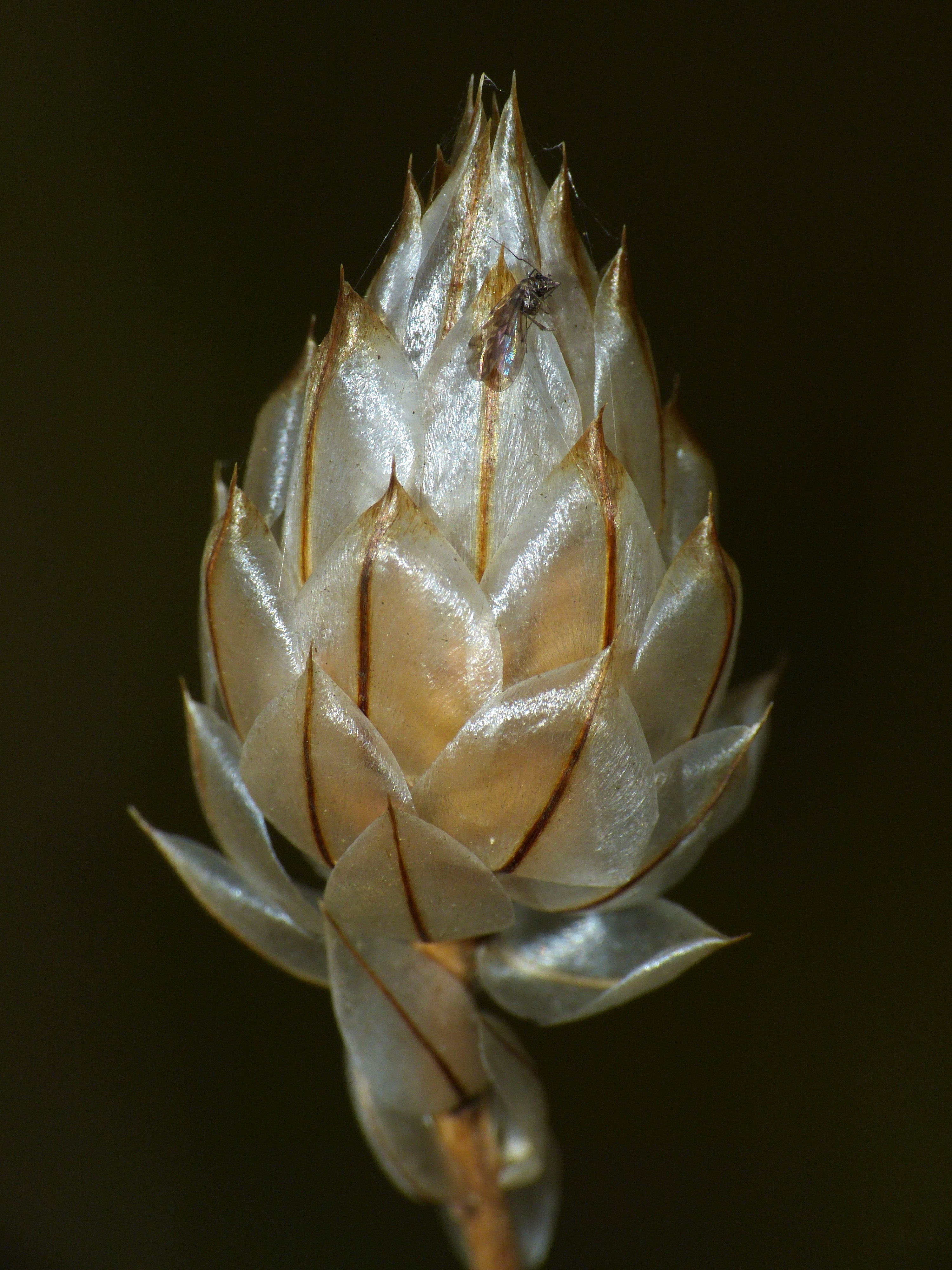 St Vallier-de-Thiey, Alpes-Maritimes, FRANCE